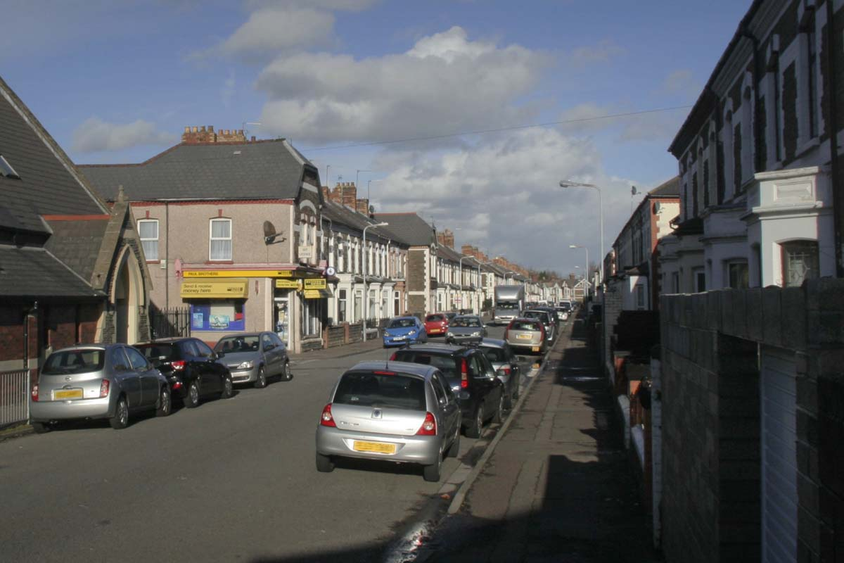 View of Habershon Street, Splott, Cardiff, looking northeast, with corner of Splott Wesleyan Methodist Church (1896) in the foreground.